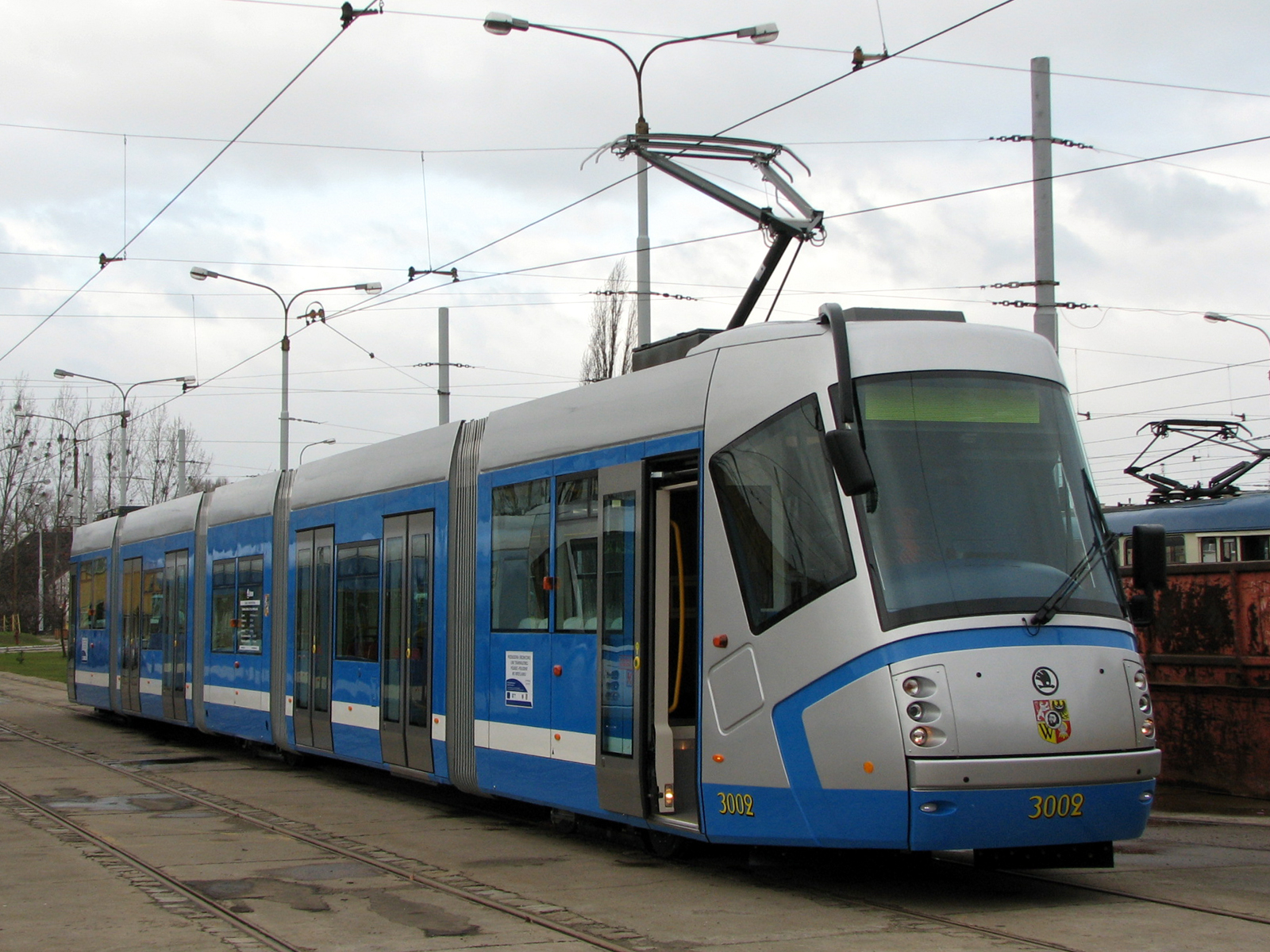 Škoda 16T tram in Wrocław, Poland